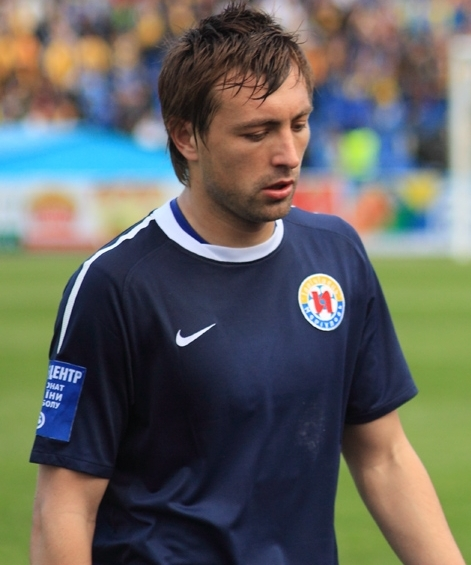 Oleksiy Antonov